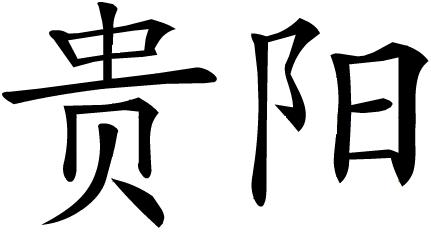 Guiyang in chinese